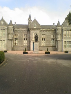 I took this picture of Aberdeen Grammar School, Aberdeen, Scotland on the 10th May 2005. (Author: Calum Crawford) Category:Aberdeen